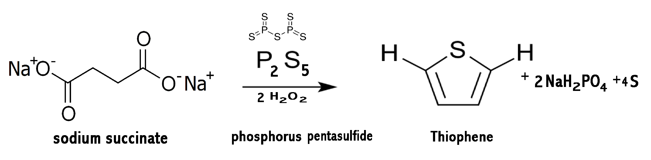 Thiophene from sodium succinate and sulphur pentasulfide